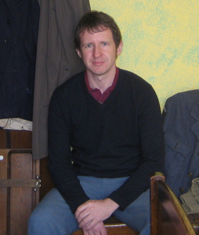 Bob Stanley in Essex.